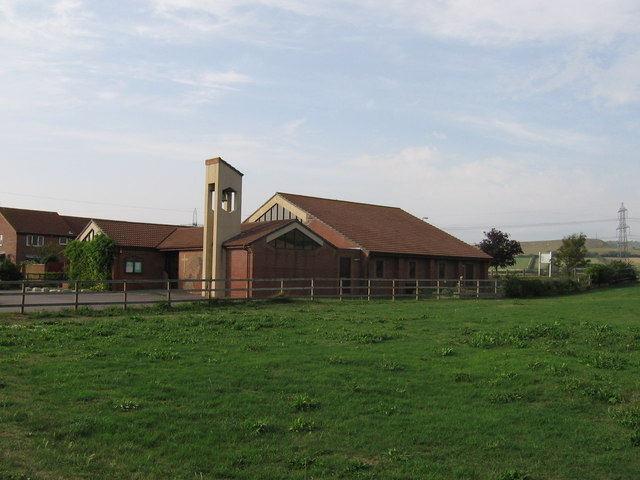 Parish church of St Francis of Assissi, Littlemoor, Weymouth, Dorset